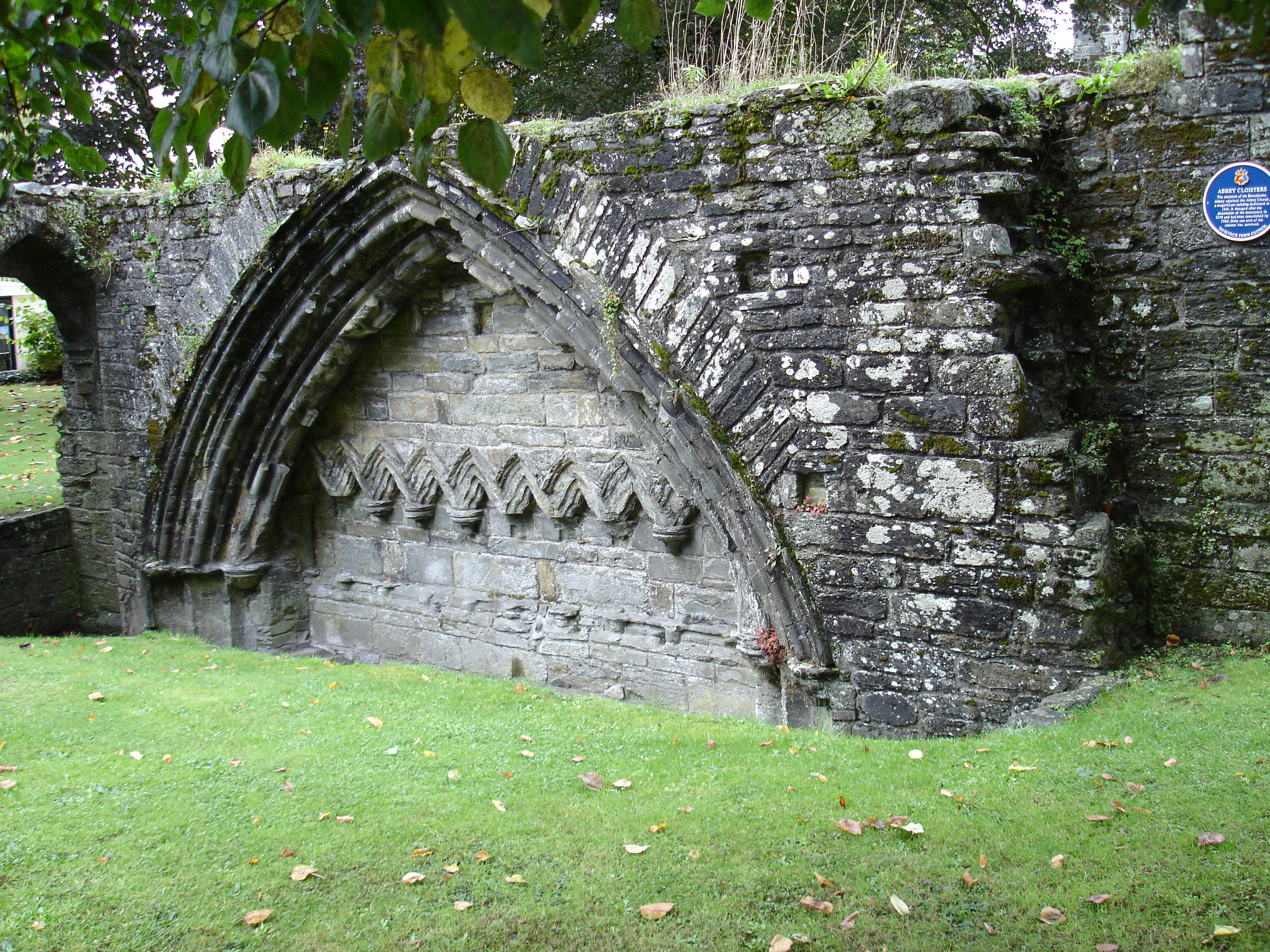 Ruin of the abbey cloister at Tavistock, Devon, England